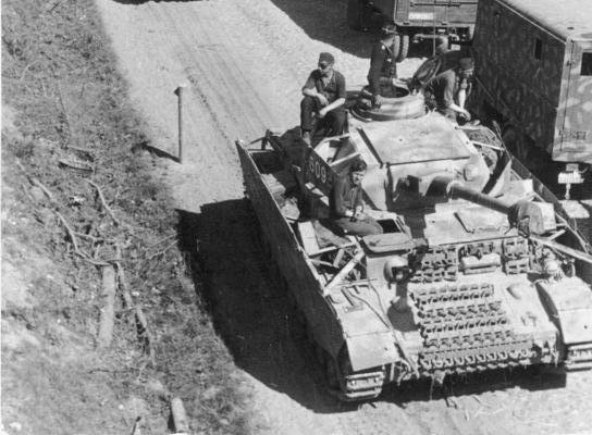 Title: Russland, Panzer IV und Transport-Kolonne Extra information: Rußland-Mitte.- Kolonne von Panzer IV, passiert in Gegenrichtung fahrende Transport-Kolonne (LKW); KBZ. HGr. Mitte Factual corrections and alternative descriptions are encouraged separately from the original description. Additionally errors can be reported at this page to inform the Bundesarchiv. Original historic description